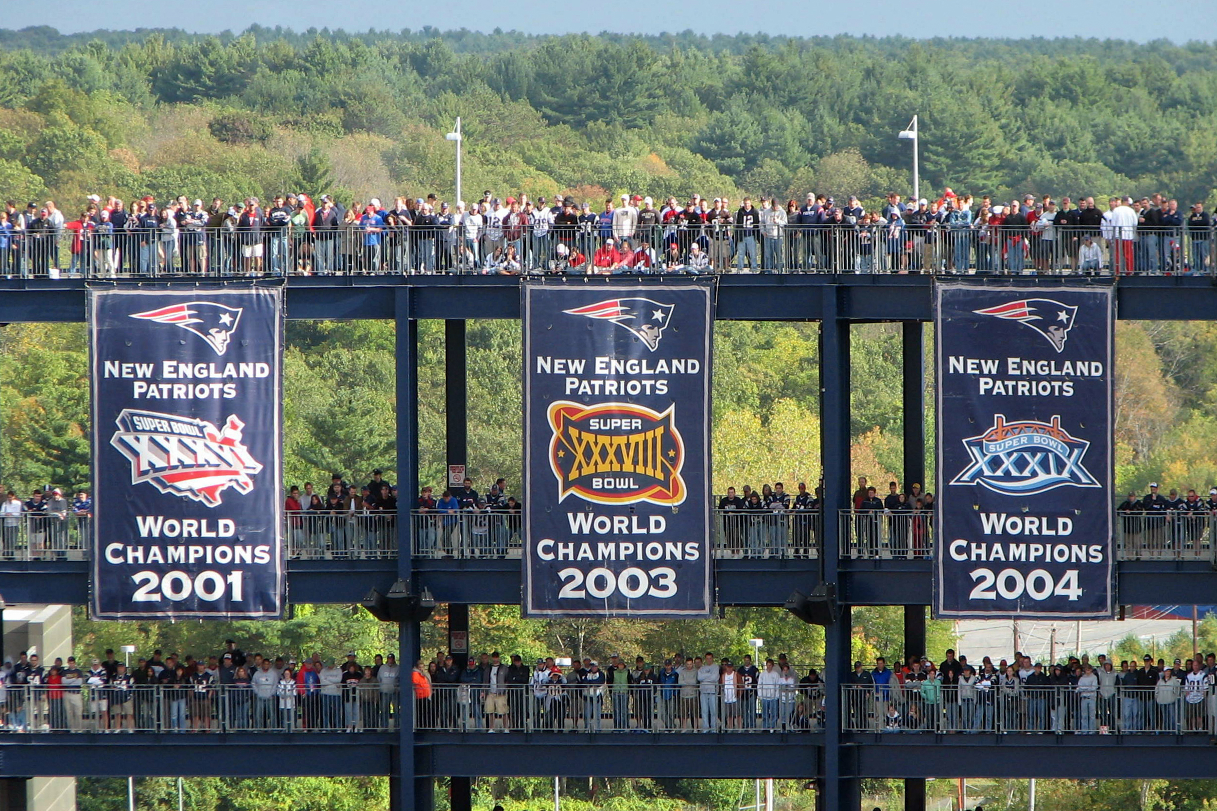 Patriots World Champions banners at Gillette Stadium, Foxboro, Massachusetts, USA